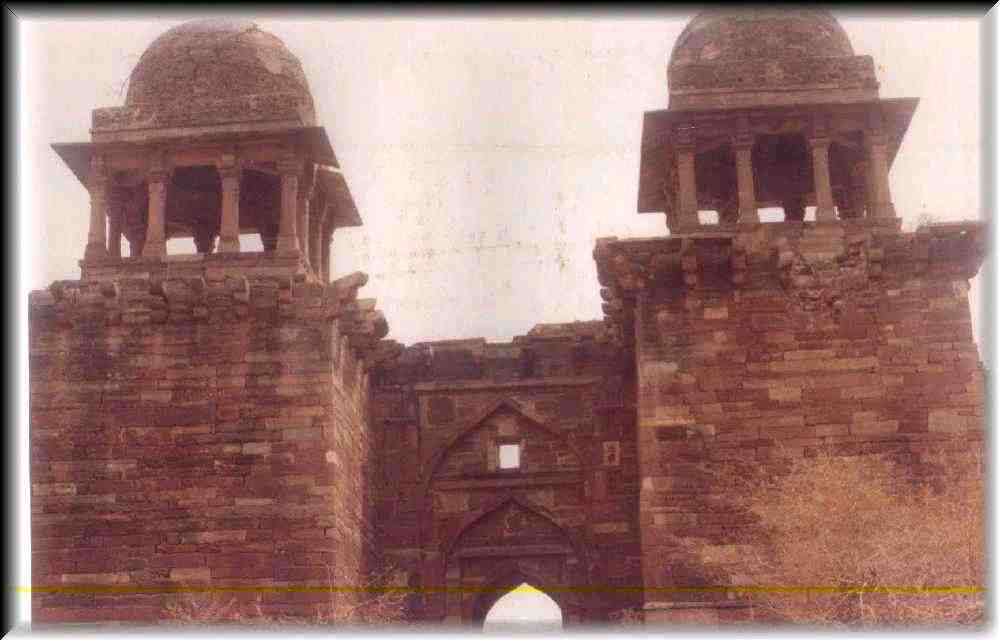 Timangarh Fort, founded by Jadubansi Rajput Raja Tahan Pala(also known as Timan Pala),eldest son of Raja Bijai Pala(founder of Vijayamandirgarh,Bayana)